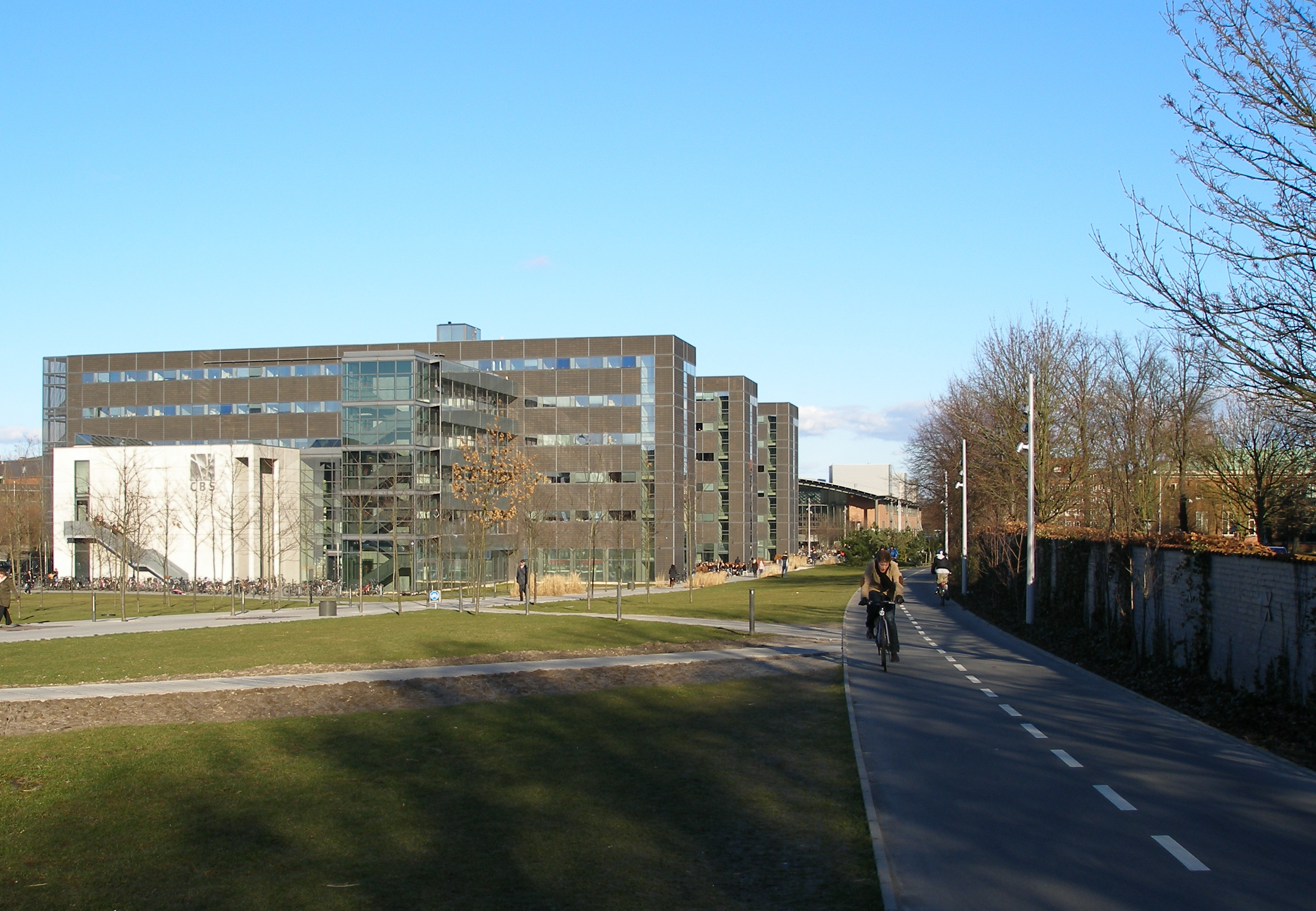 Copenhagen Business School and the cycling route "Den grønne sti"